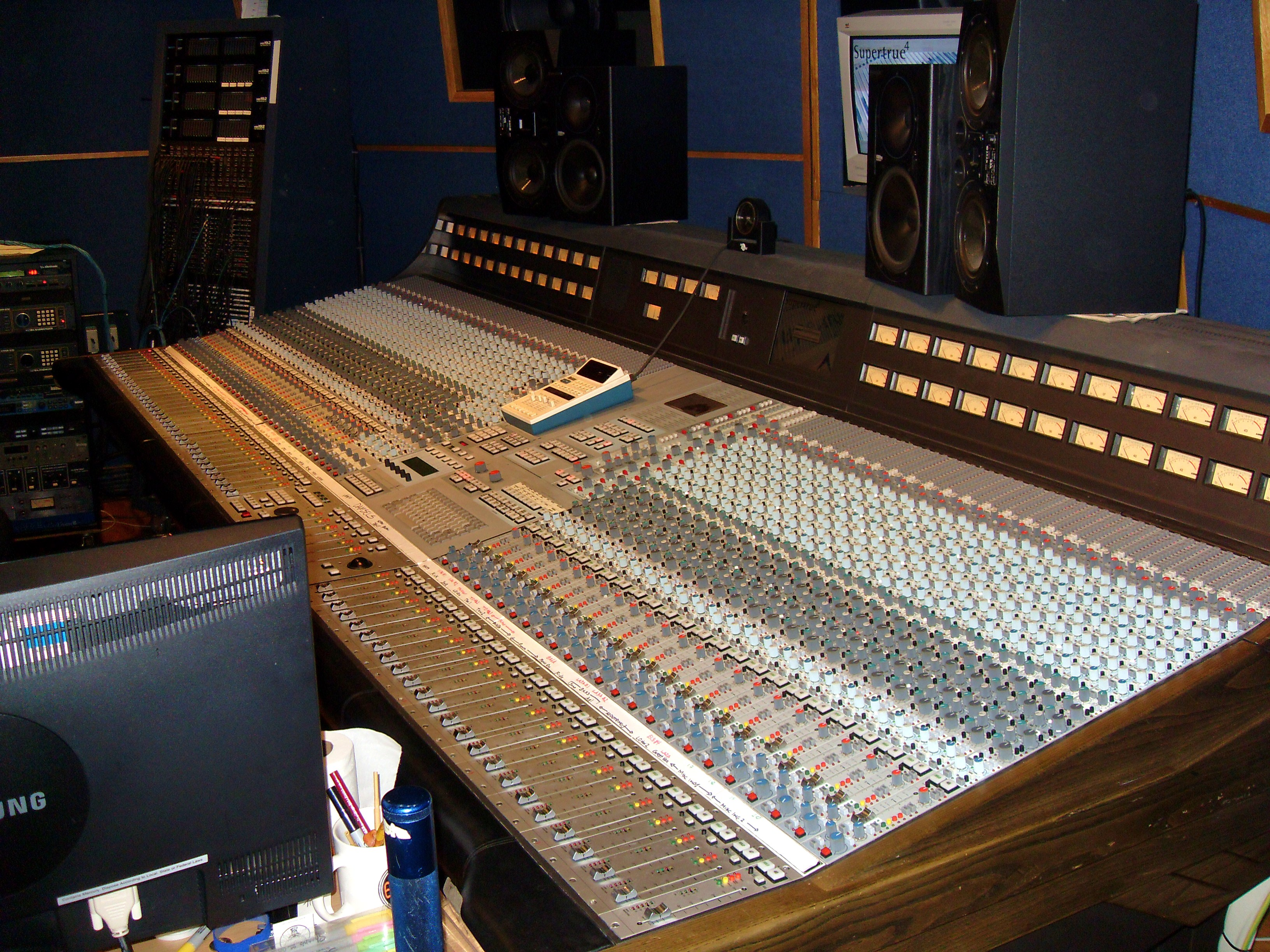 An Amek 9098i console at Big Blue Meenie studios in Jersey City. Thank you to Tim and Jennene of BBM for giving a tour of their facility.